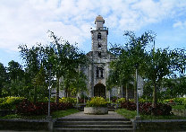 The Roman Catholic church in Alburquerque, Bohol, the Philippines.